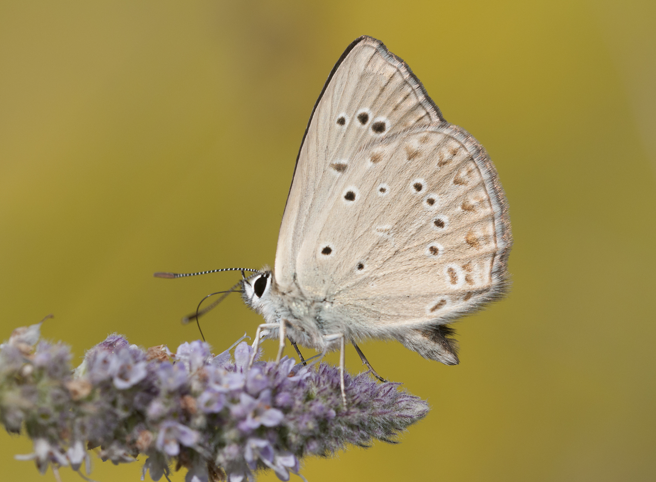 A female Anomalous Blue (Polyommatus admetus), nectaring on wild peppermint (Mentasp.) flowers. Çamardı, Niğde - Turkey.